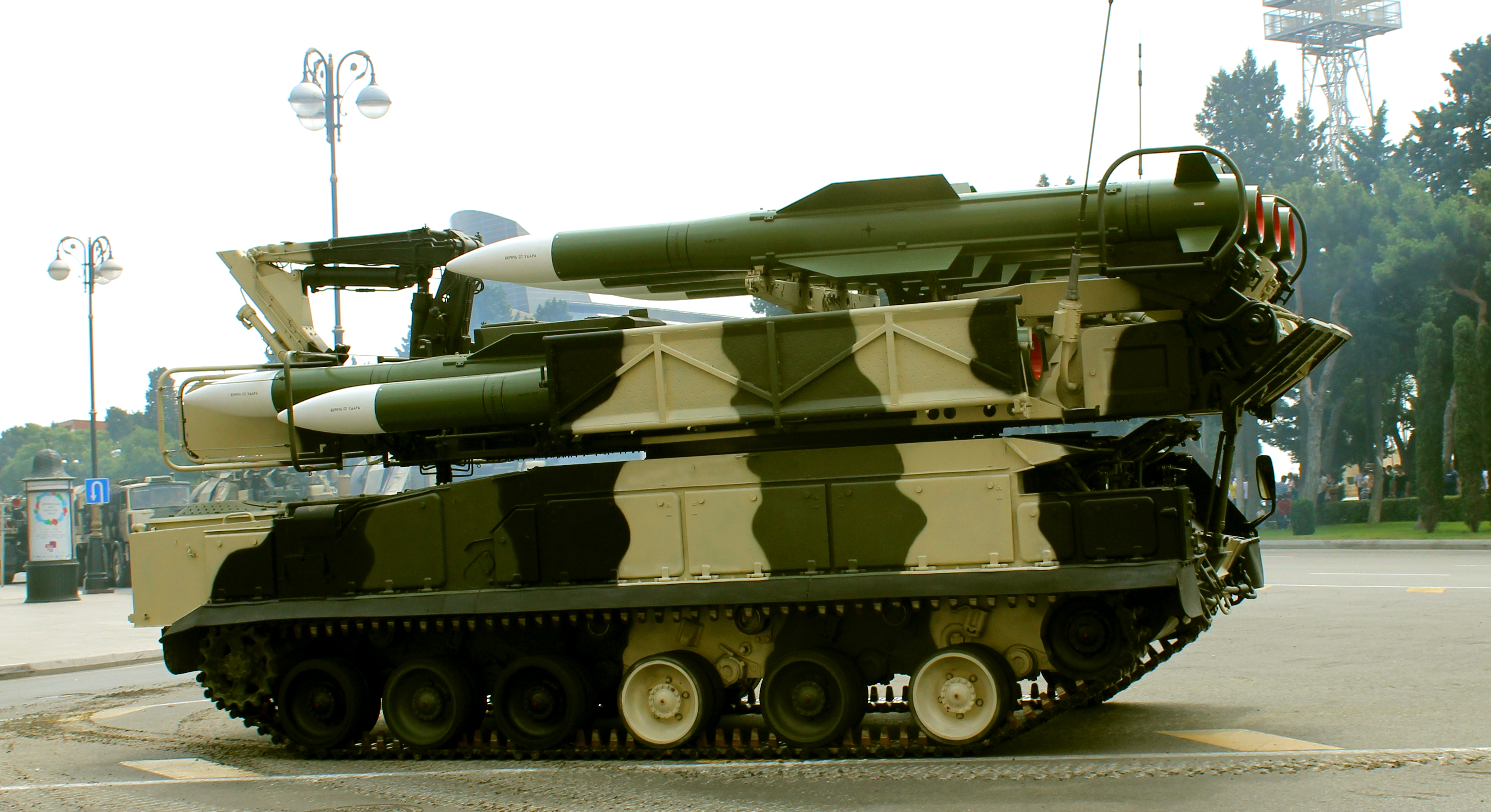 Military parade in Baku 2013